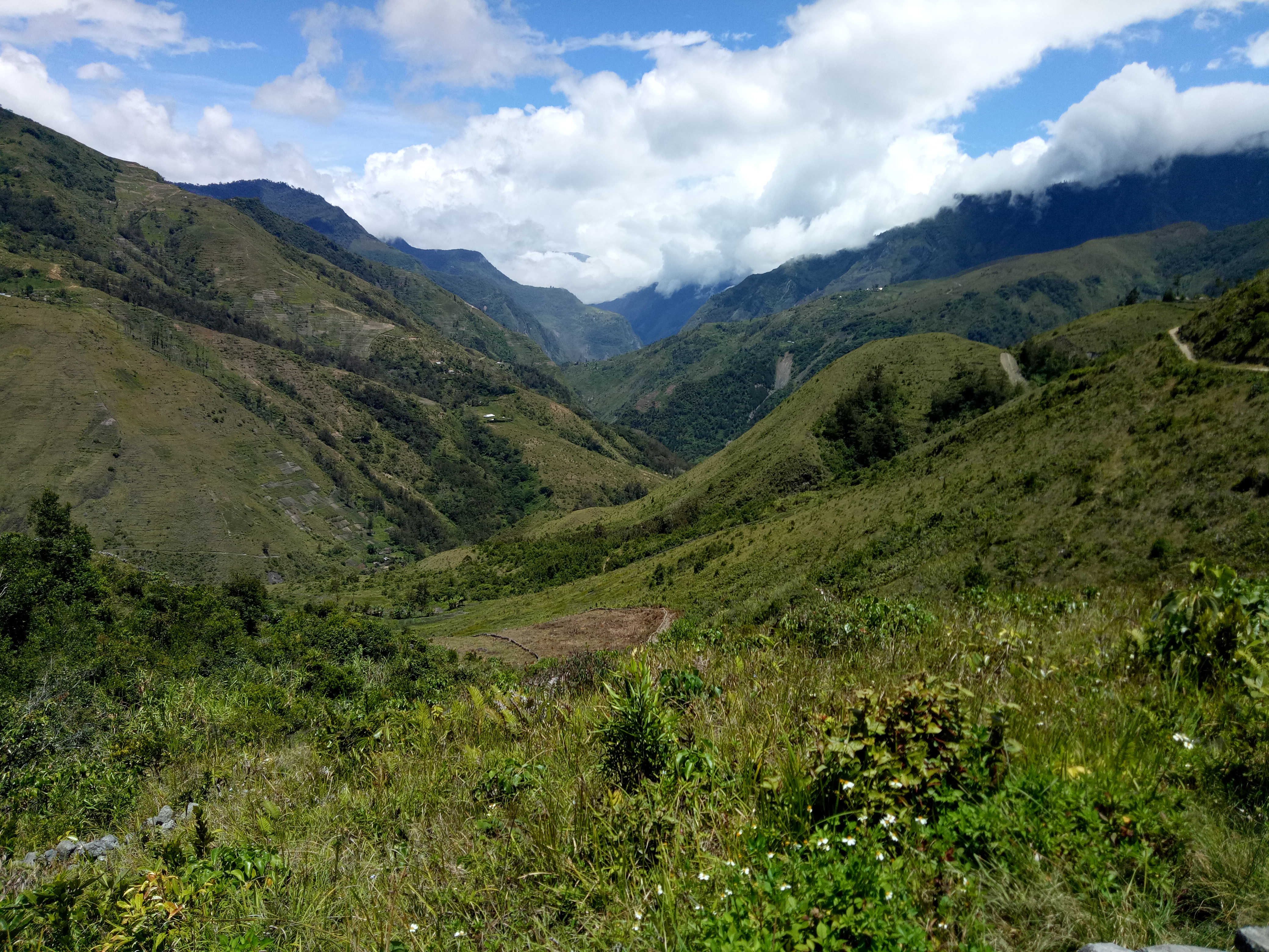 Papouasie Baliem valley